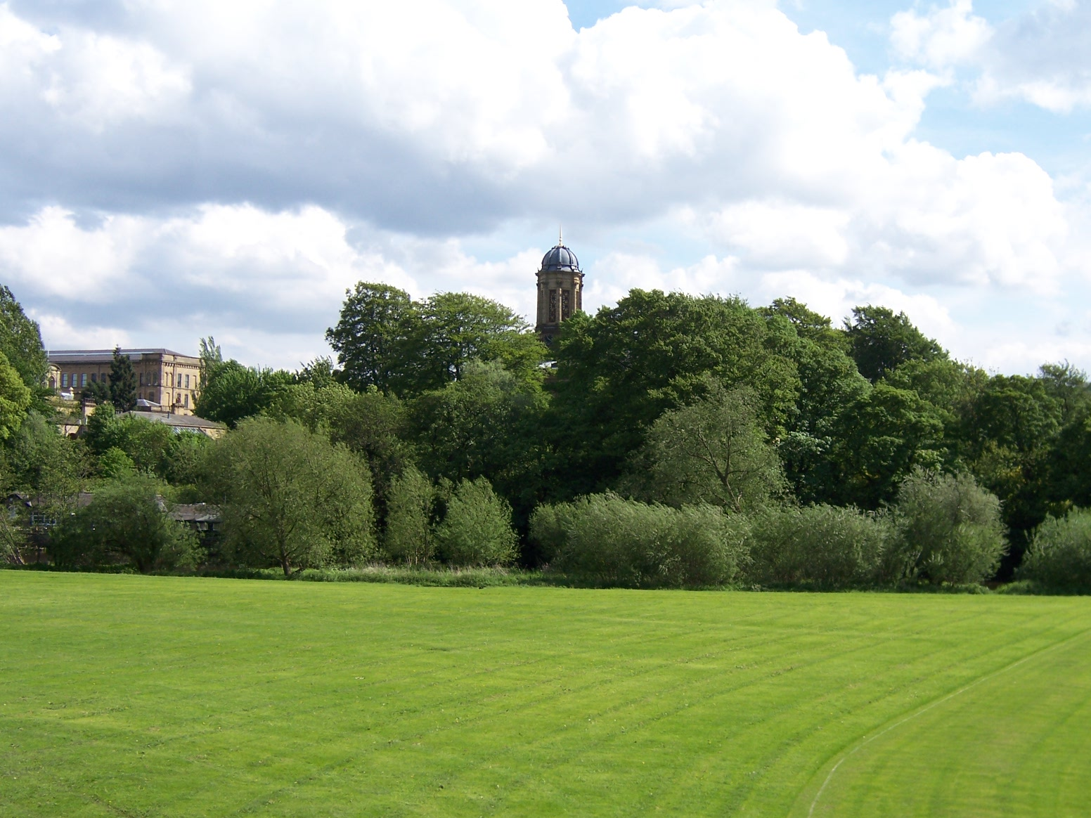 View from Roberts Park on United Reformed Church in Saltaire, West Yorkshire (England) own work; photo taken on 23 May 2006